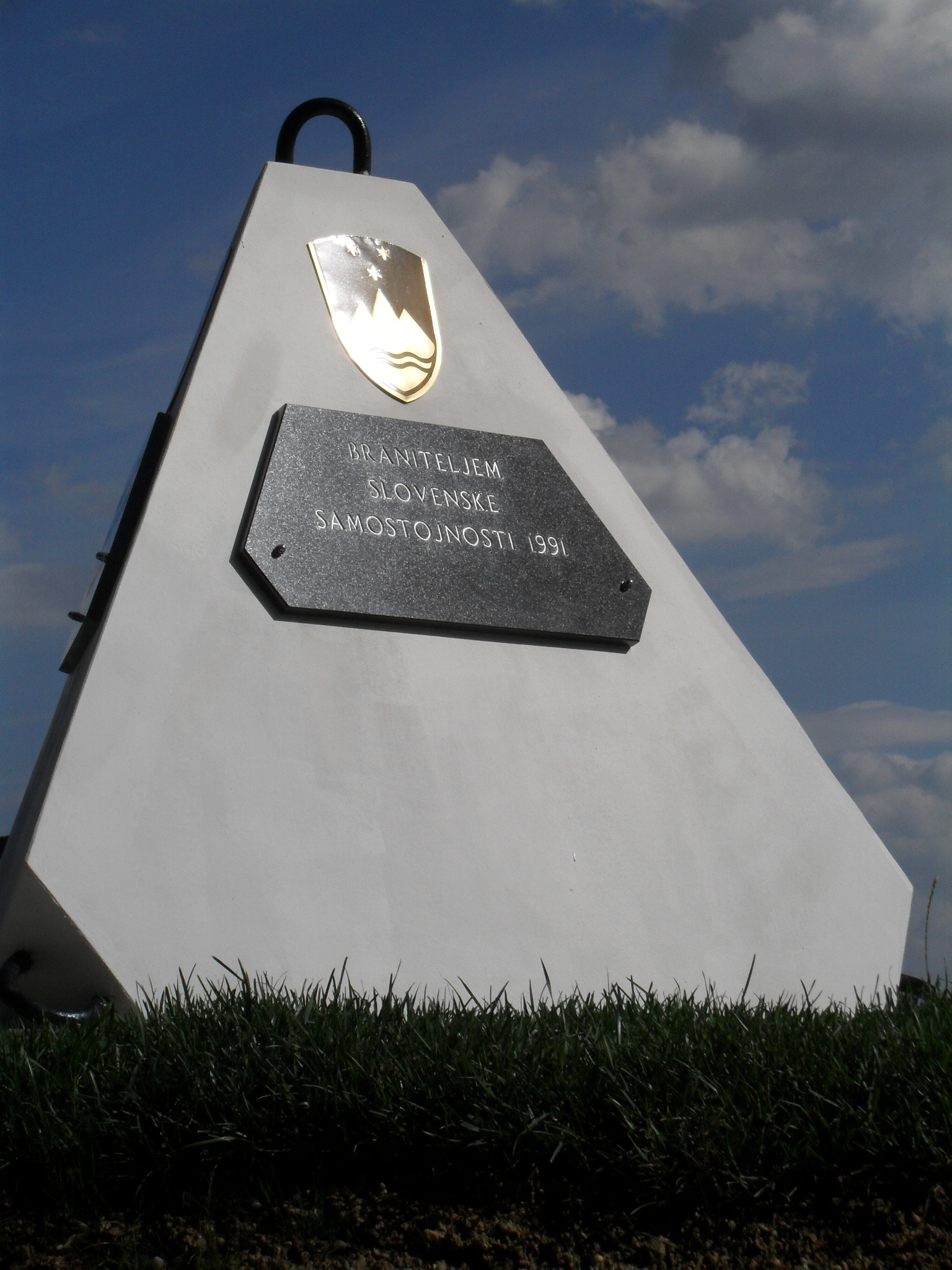 The monument of the old border guard in Čepinci, Prekmurje, Slovenia (1, 2)